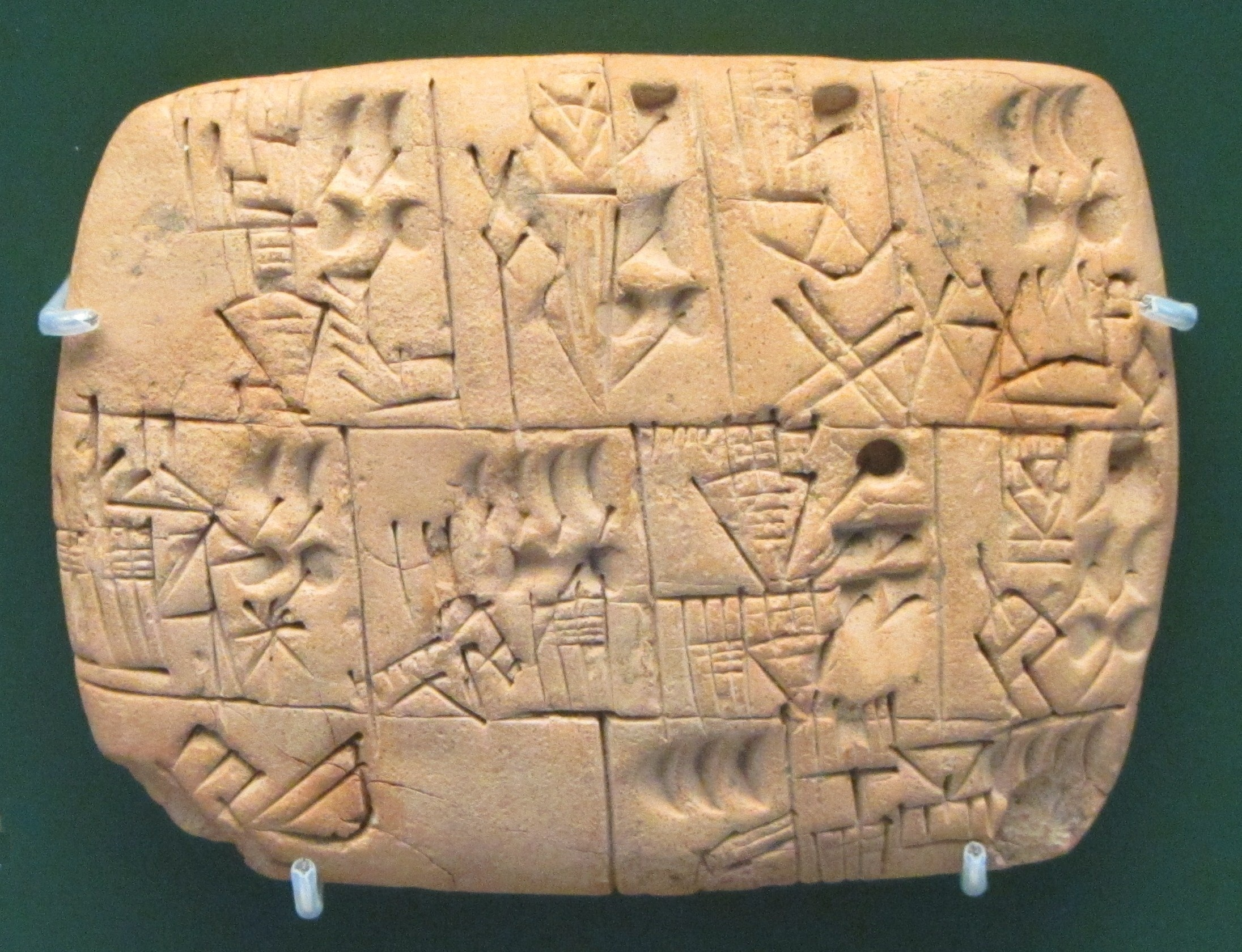 Early writing tablet recording the allocation of beer; 3100-3000 BC (Late Prehistoric period); height: 9.4 cm, width: 6.87 cm; probably from southern Iraq; British Museum (ME 140855).